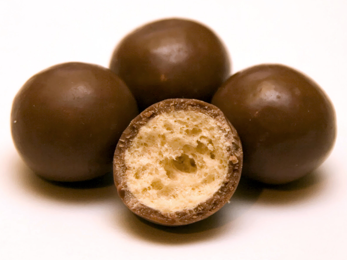 The Cross Section of a Maltesers